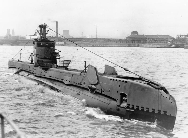 British S class submarine HMSM SARACEN underway on the River Mersey.